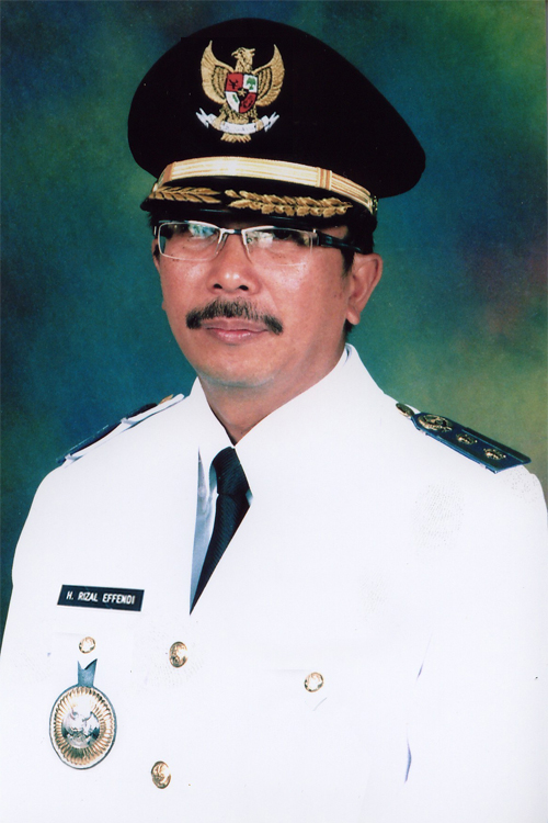 Rizal Effendi as Vice Mayor of Balikpapan